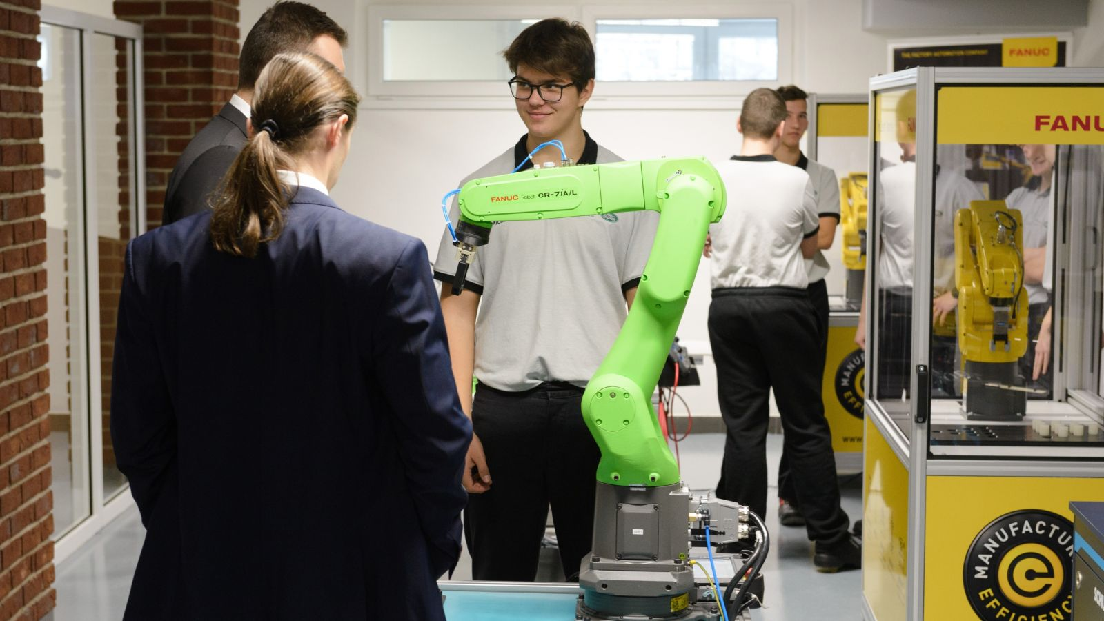 SSOS Polytechnicka Nitra